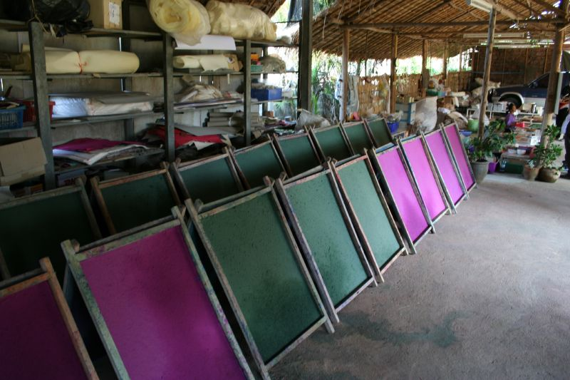 Elephant dung paper, Chiang Mai, Thai